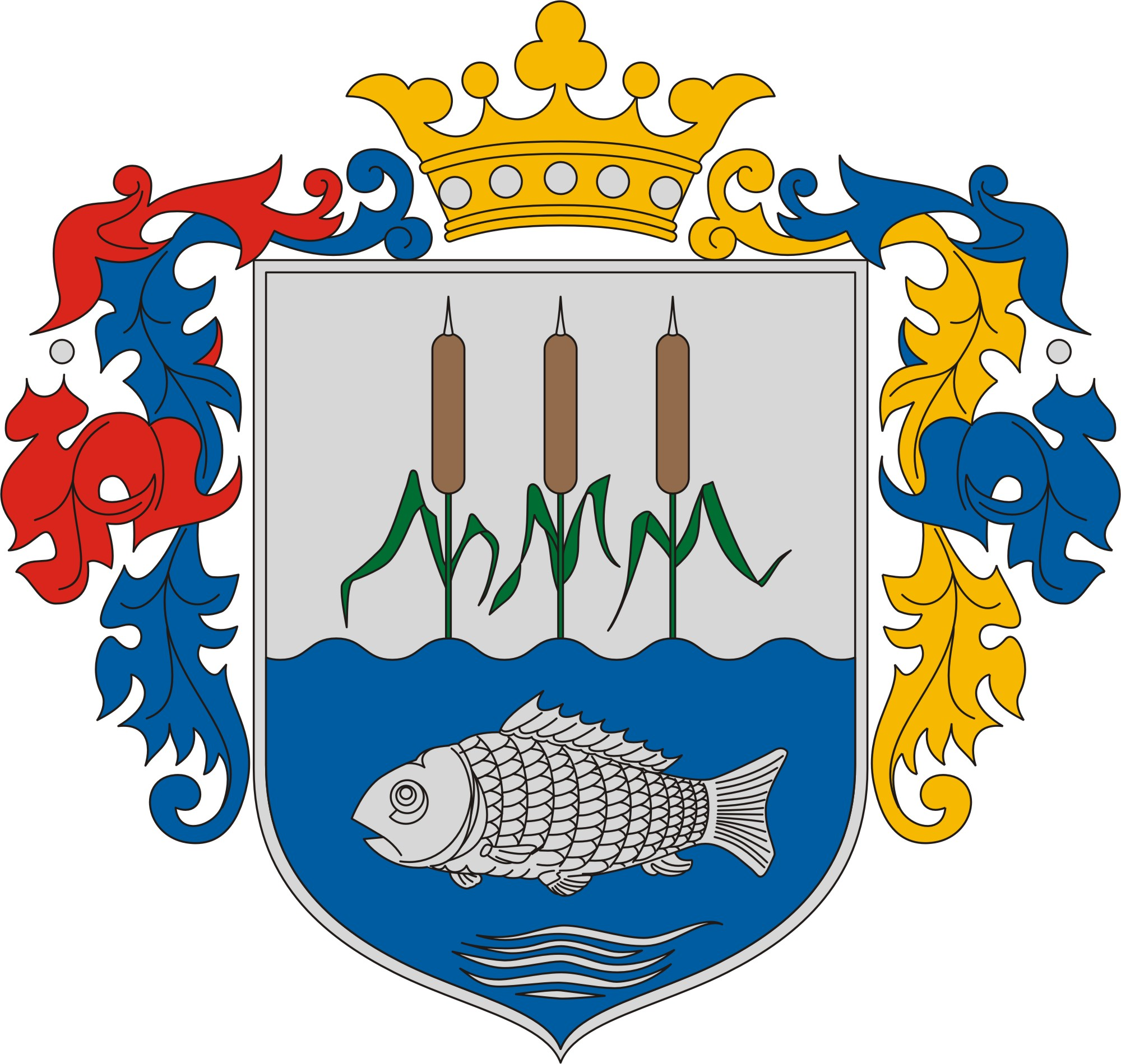 Coat of arms of Folyás, Hungary